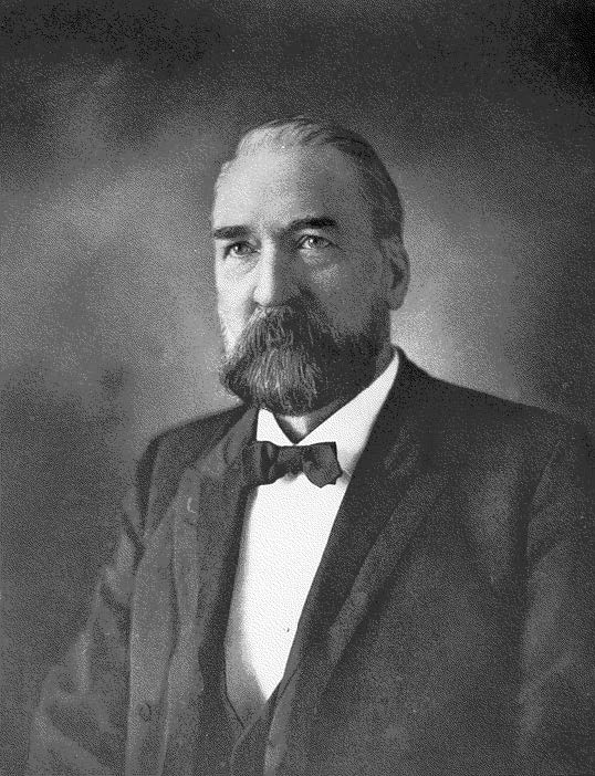 George Ashdown Audsley photo portrait